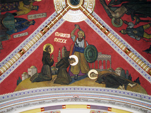 Painting of Moroccan Martyrs of 1227, Chapel of the Martyrs of Narni in Katowice Panewniki